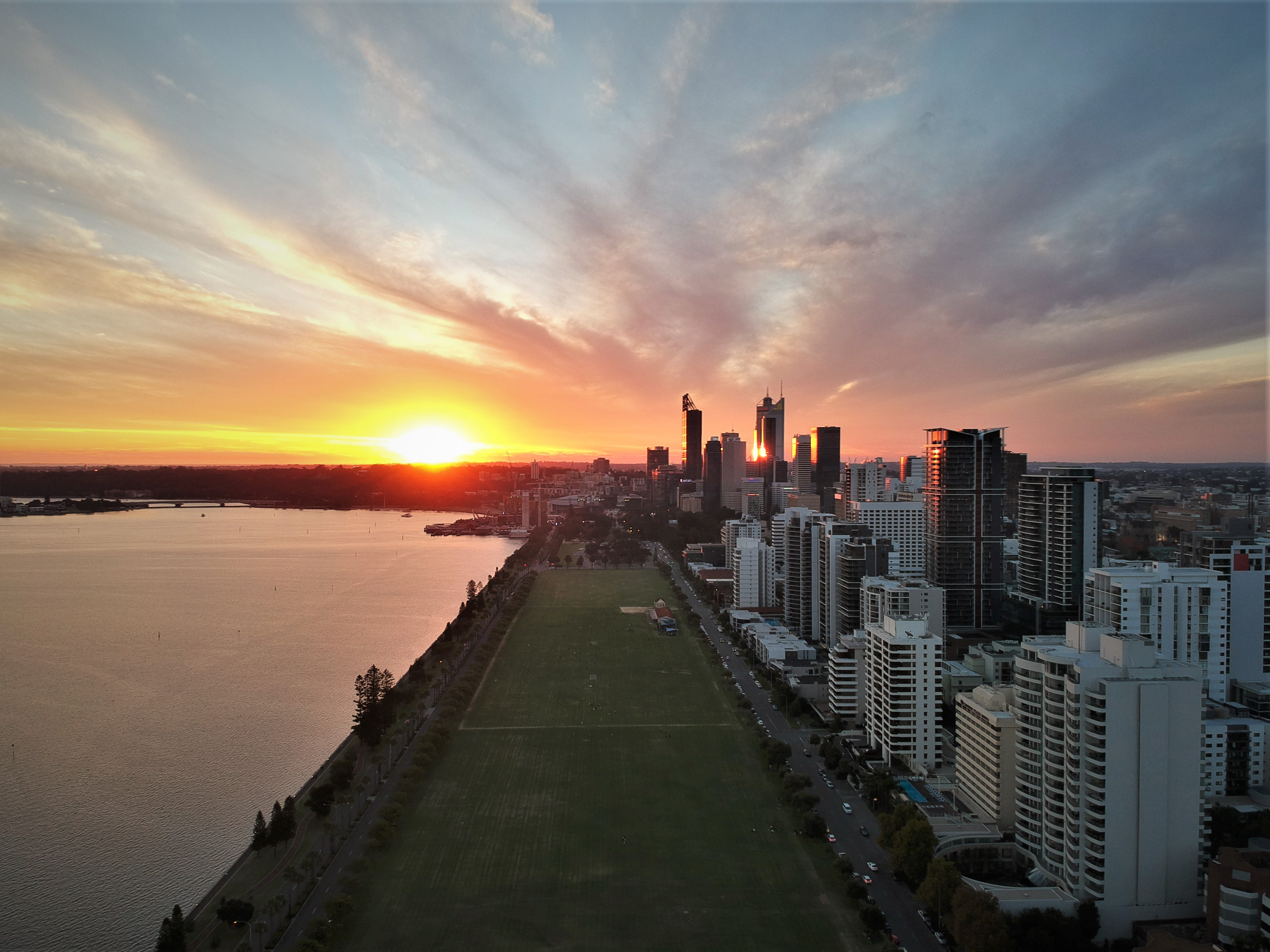 Perth, facing west @ sunset